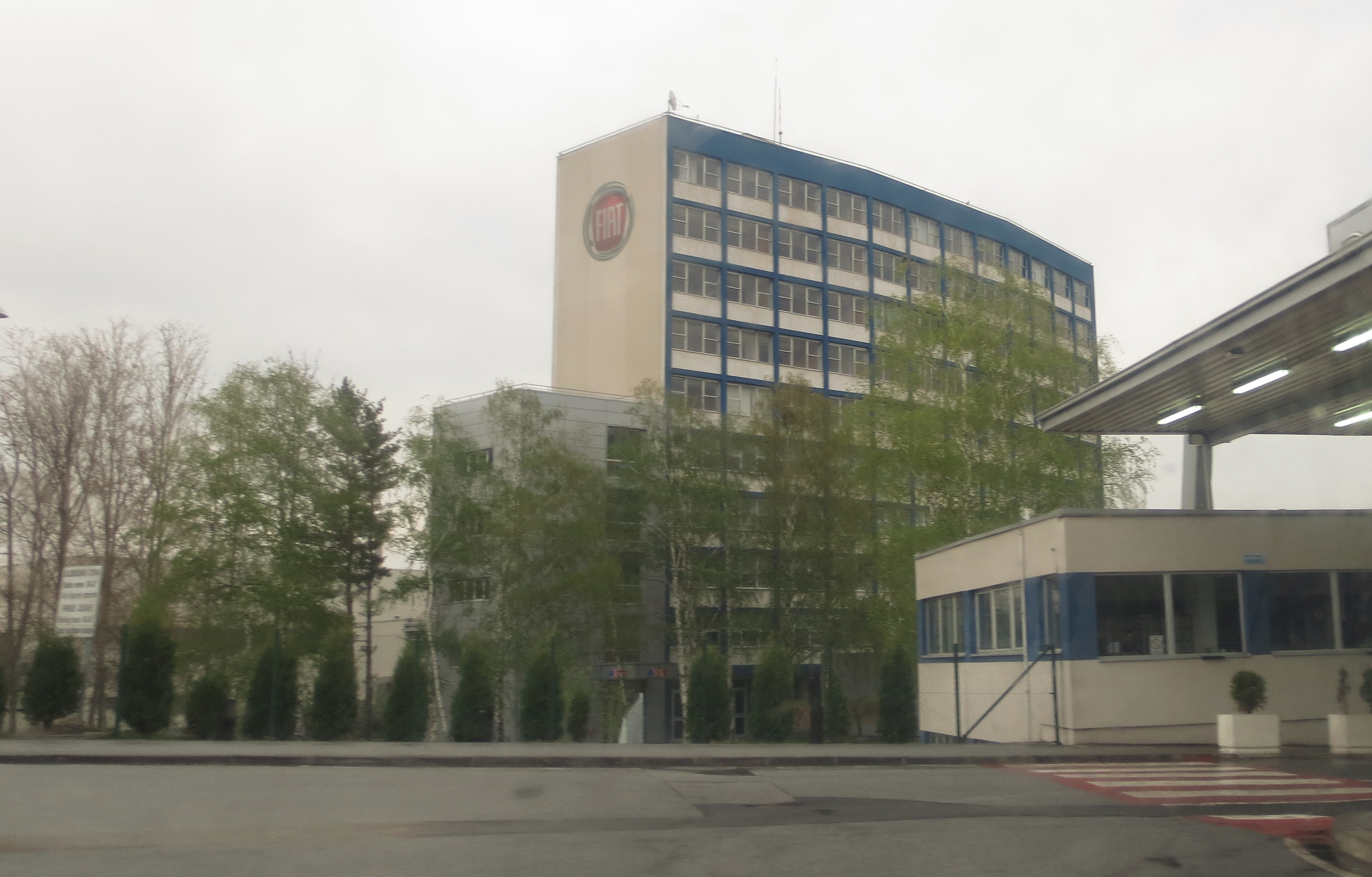 Image of the FIAT car factory in Kragujevac, central Serbia. This 1 bn EUR investment in 2012, was among the biggest ever in the country. The car factory is based on the previous Jugo/Zastava experience.